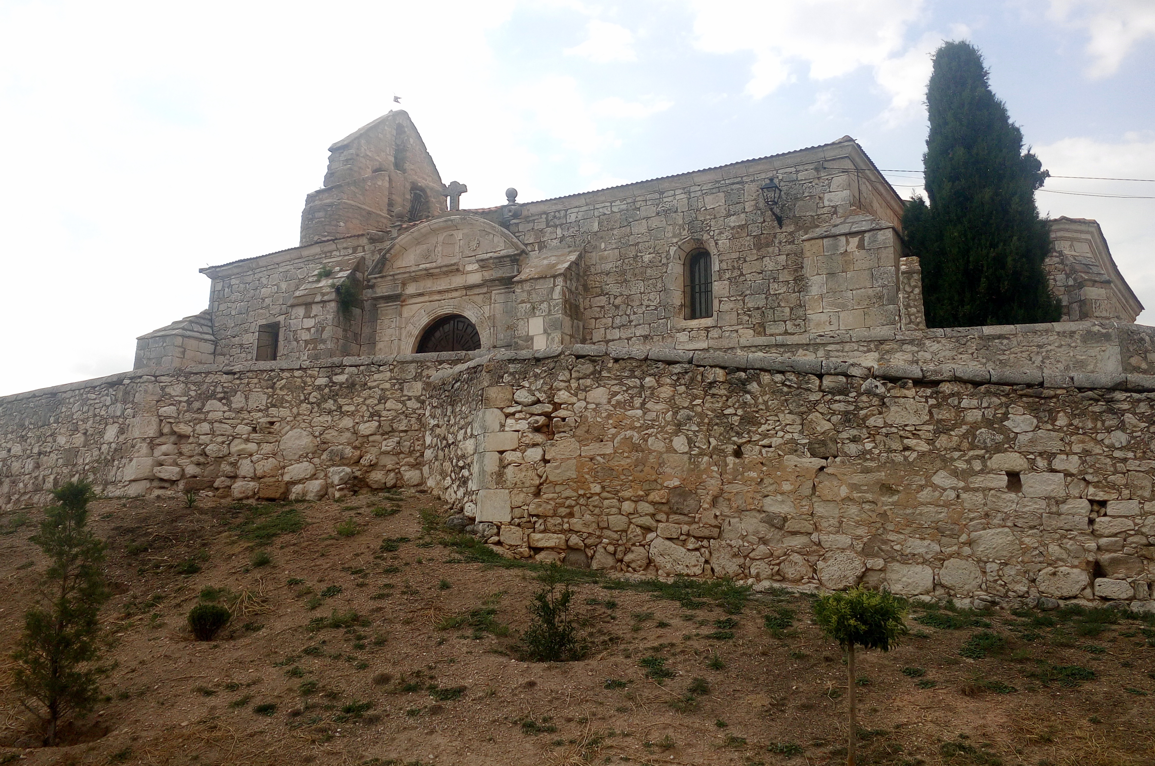 Church of Valdezate, Burgos, Spain